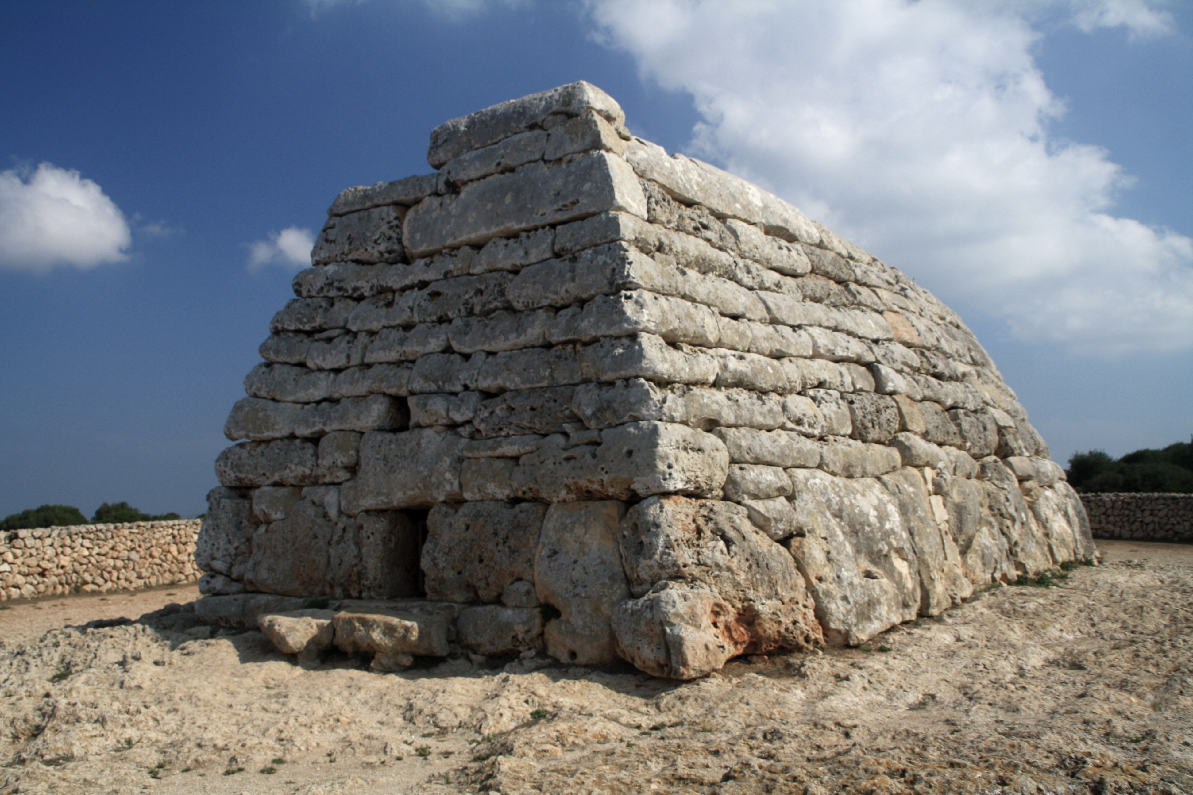 Naveta des Tudons, megalithic chamber tomb in Minorca